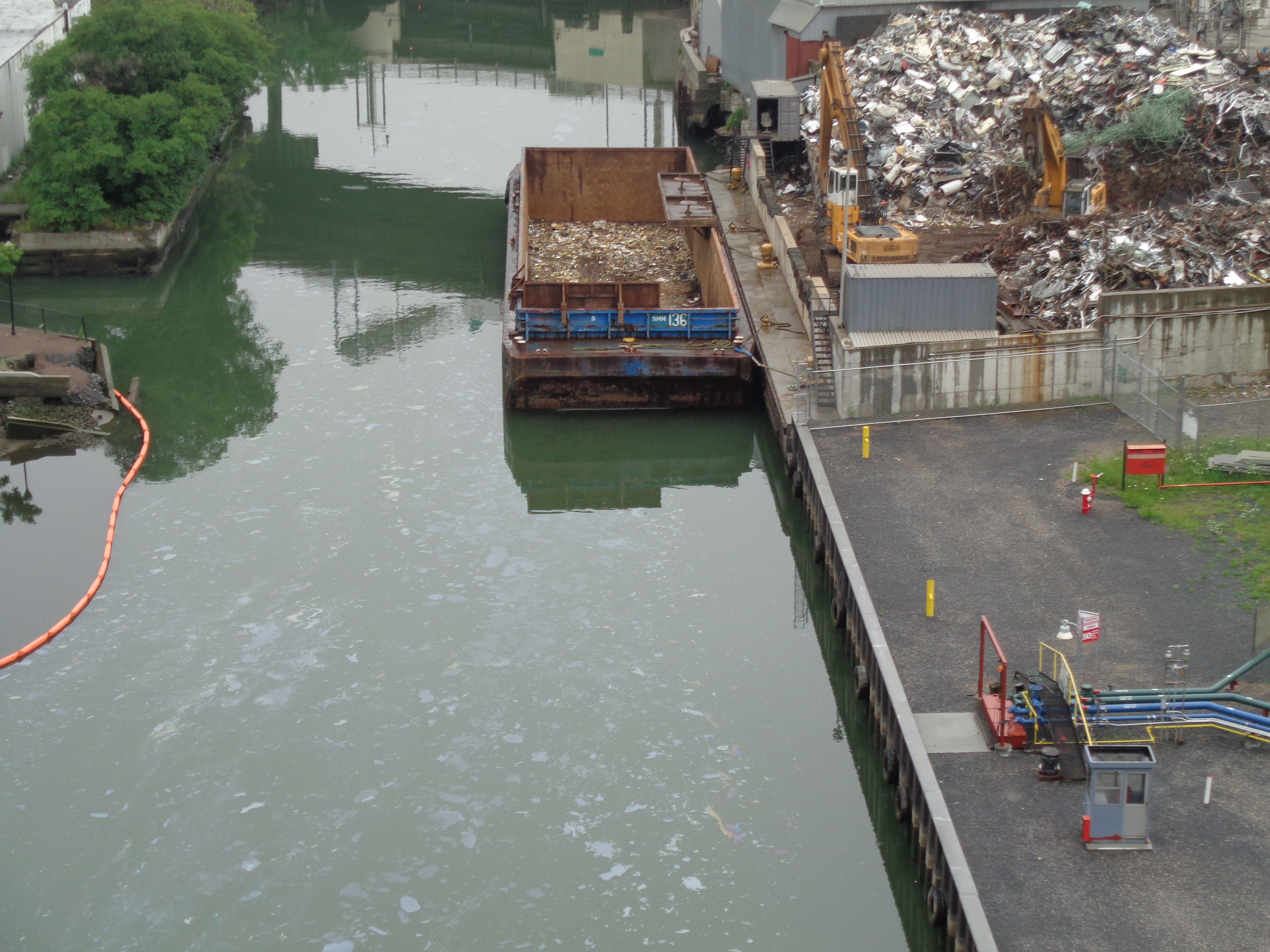 The Gowanus Canal and the Benson Scrap Metal company (top right), looking from the southbound platform of the Smith-Ninth Streets subway station in Gowanus, Brooklyn.